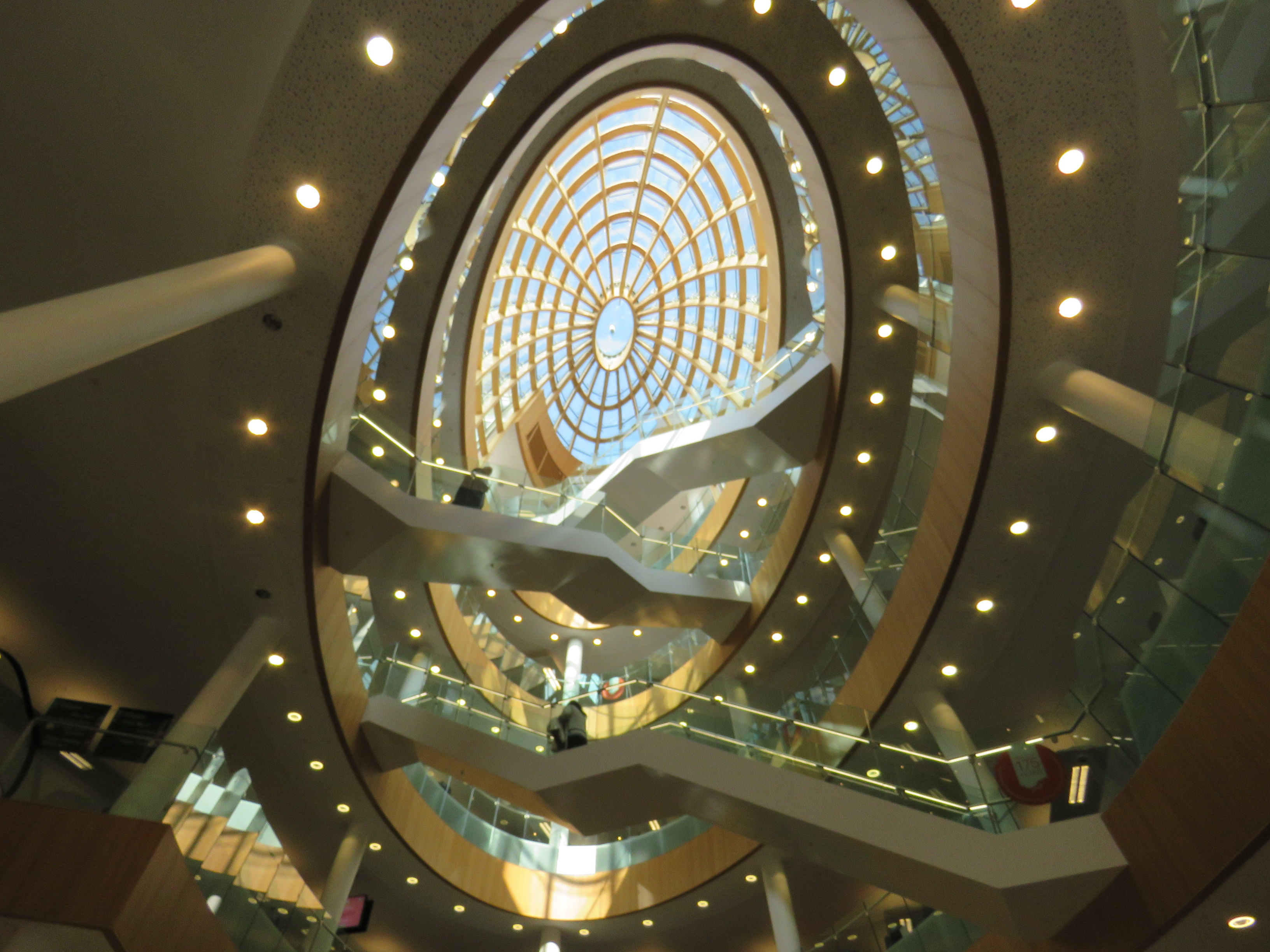 Liverpool Central Library interior and ceiling